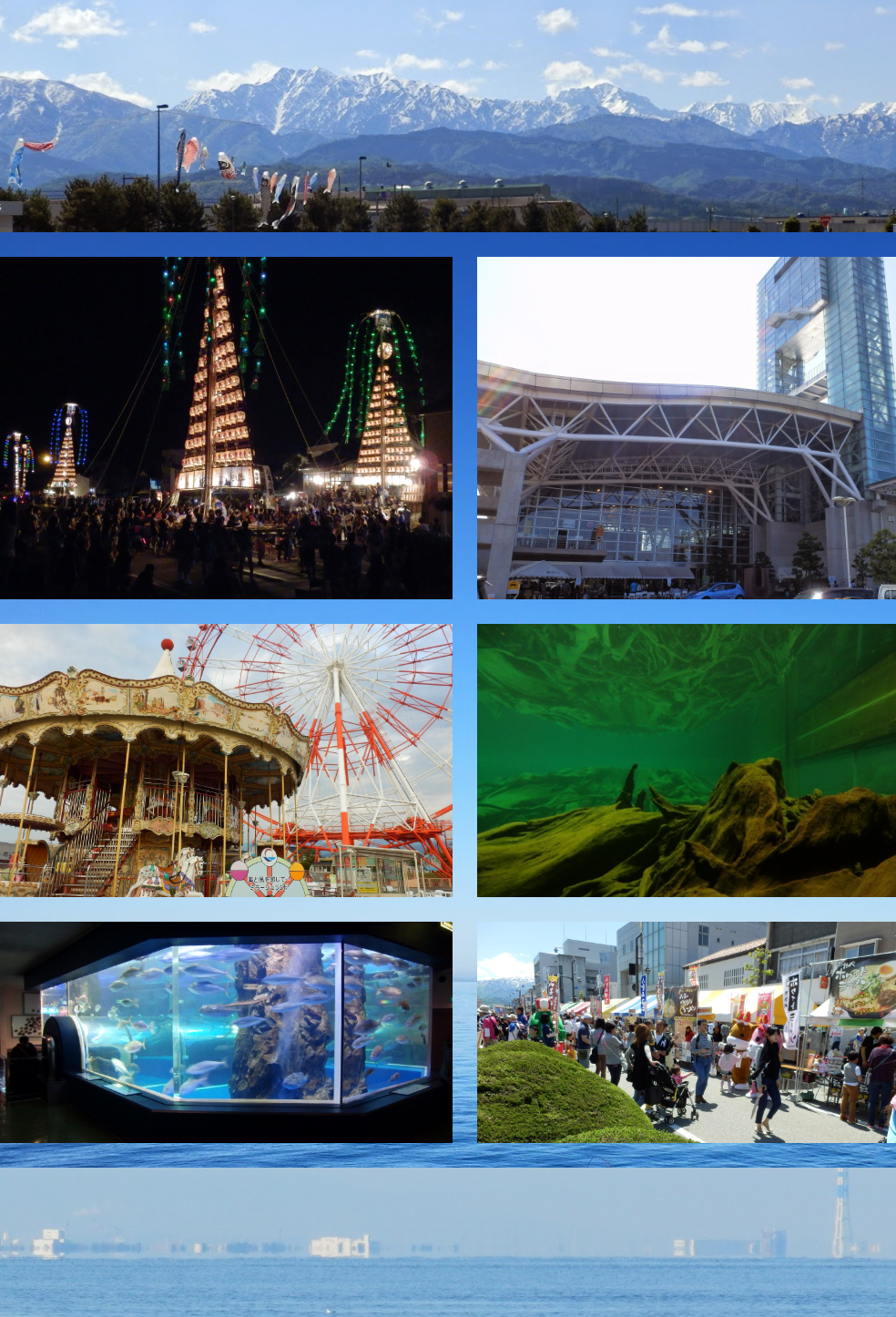 Montage of Uozu, Toyama Prefecture, Japan